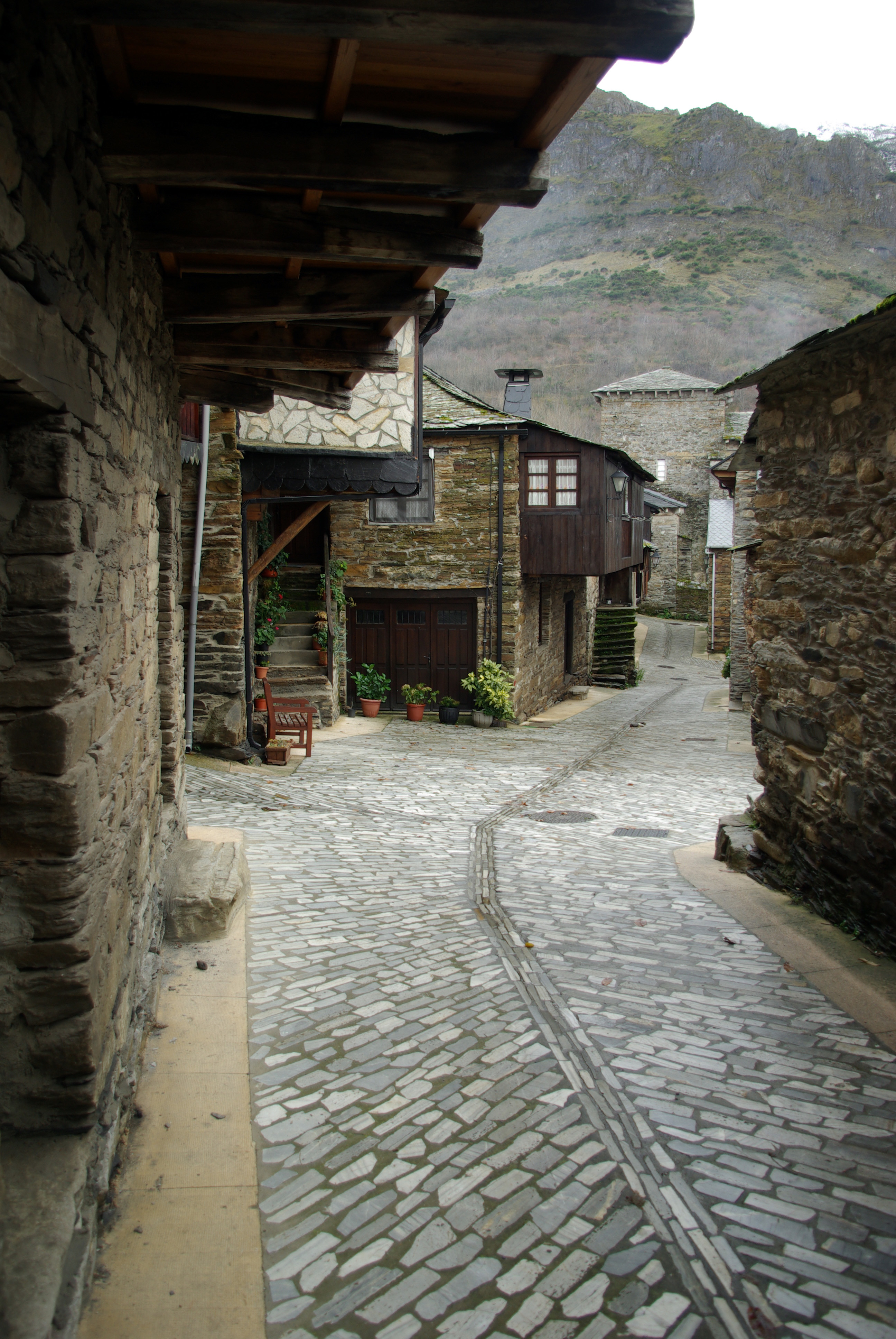 Peñalba de Santiago (Ponferrada, León, Spain)